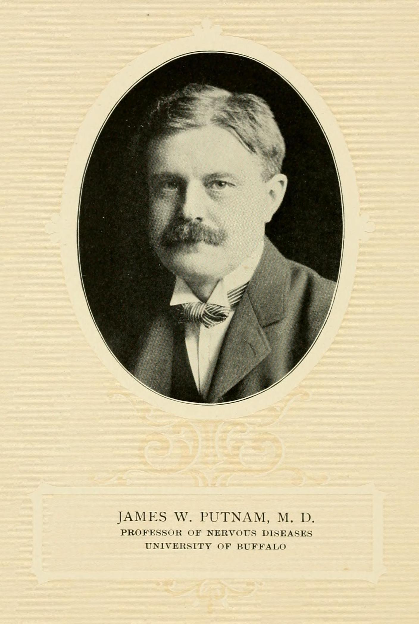 James W. Putnam